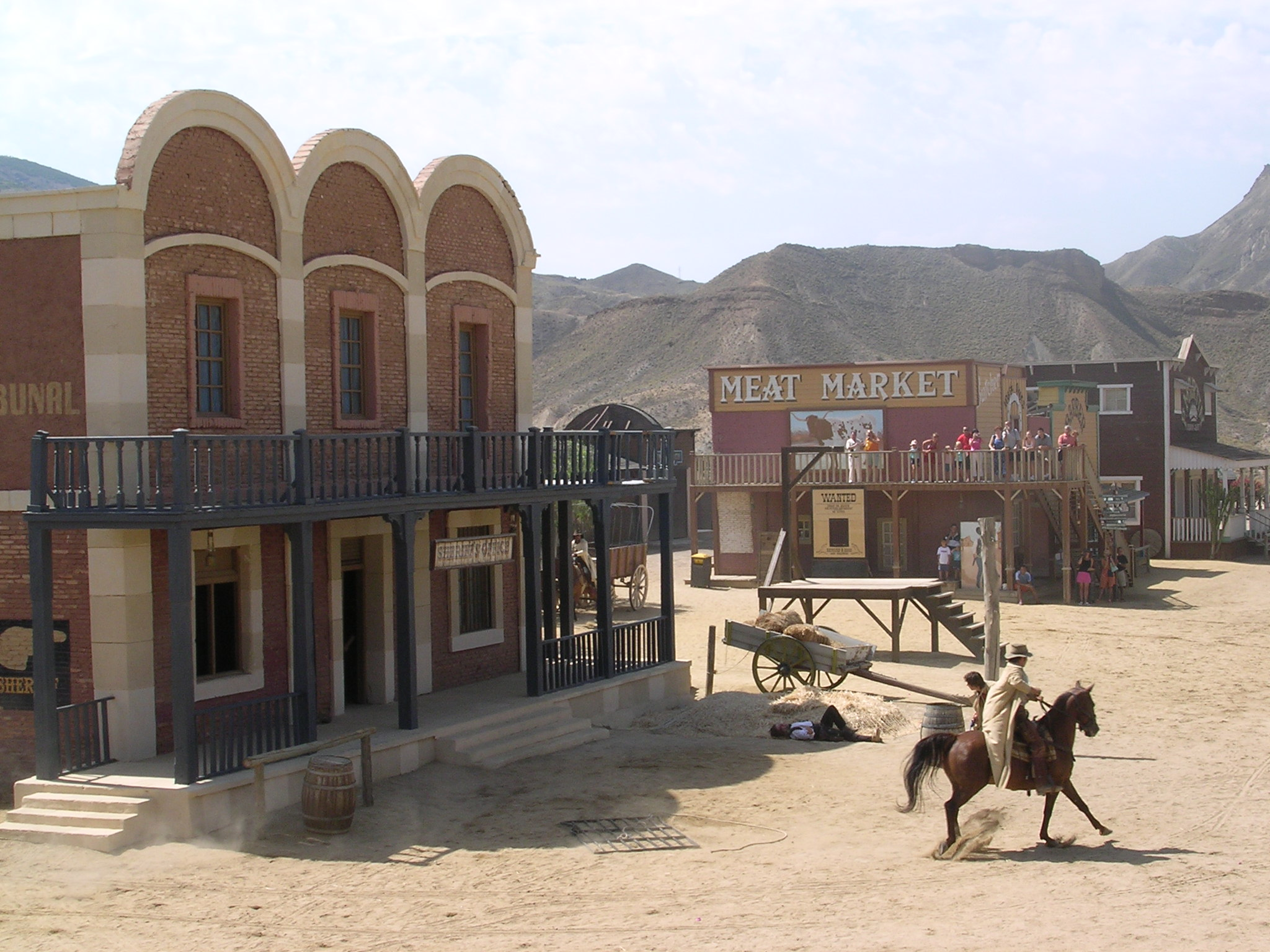 Tabernas Desert, Spain